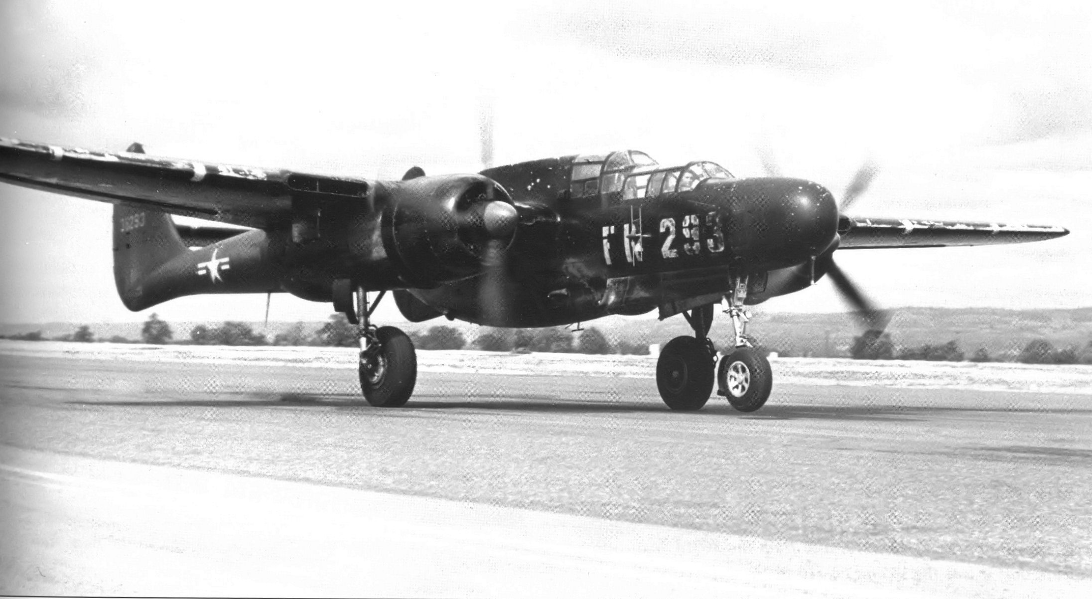 318th Fighter-All Weather Squadron Northrop P-61B-20-NO Black Widow 43-8293 1947 Hamilton Field CA. One of Air Defense Command's first interceptor aircraft.